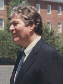 j.joseph curran